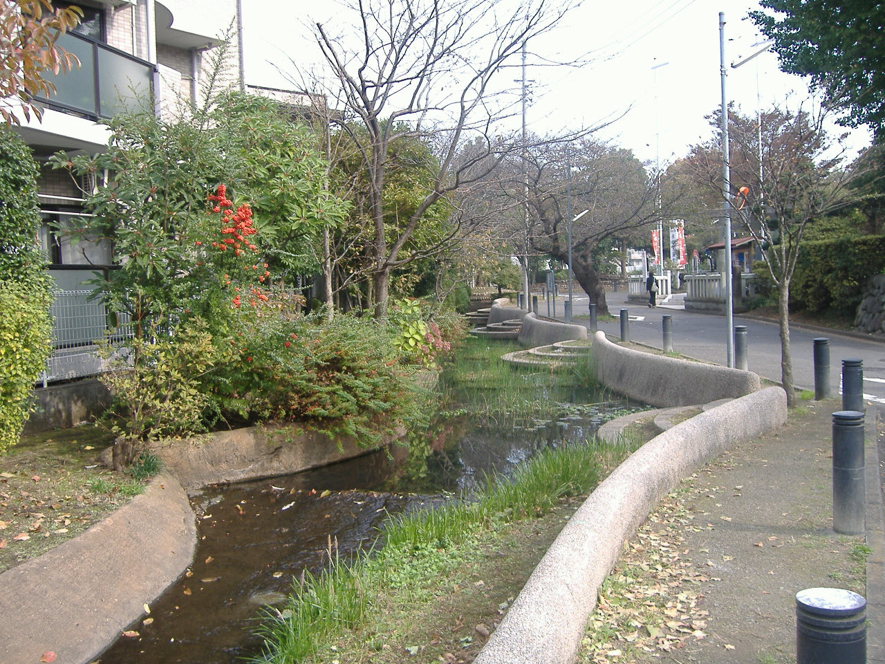 Kaminagaya Fureai-no-mizube (Yokohama, Japan)